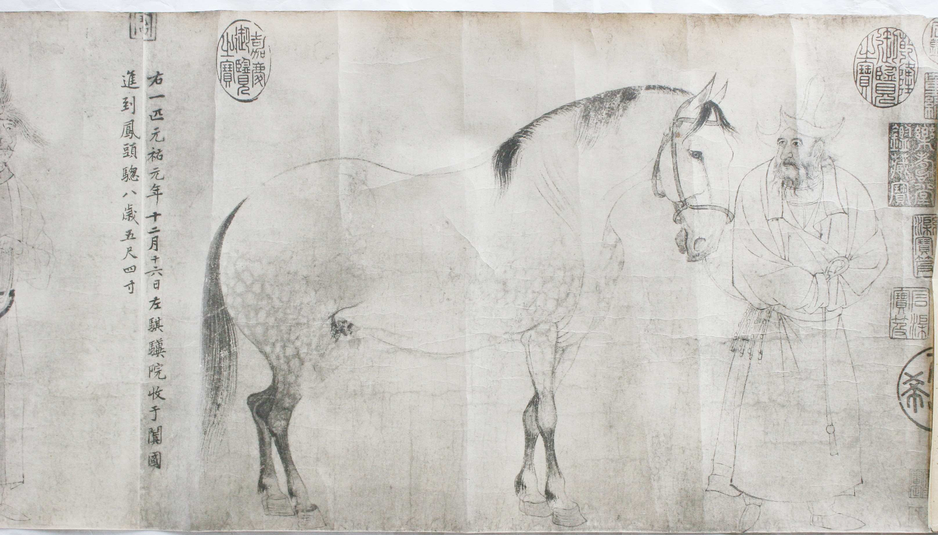 First Part of Five horses handscroll by Li Kung-lin (11th century). Ink on Paper